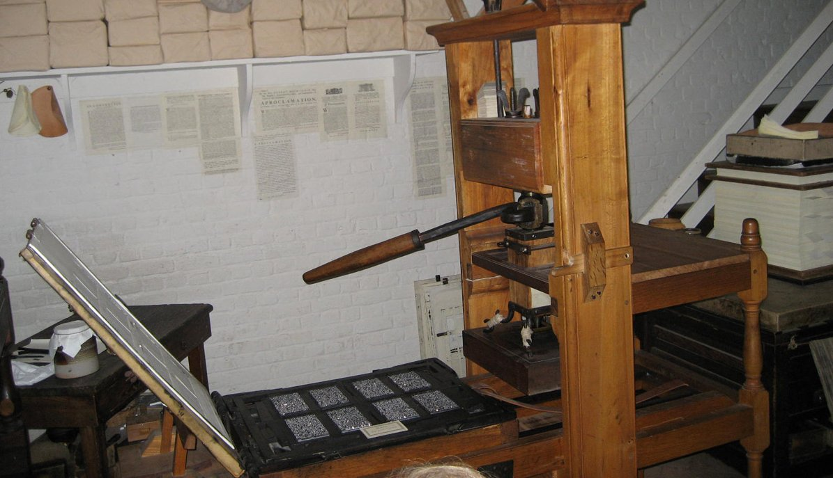 Colonial Williamsburg printing